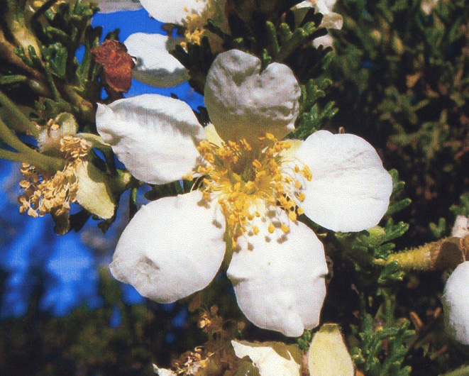 Cliffrose flower